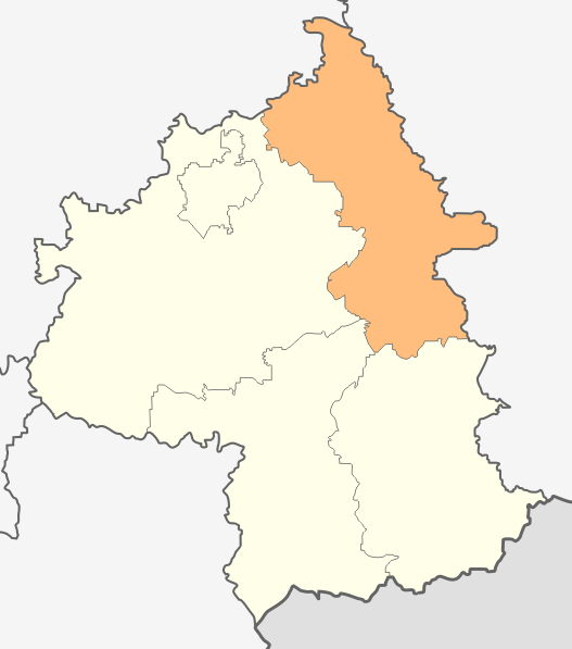 Map of Straldzha municipality, Yambol Province